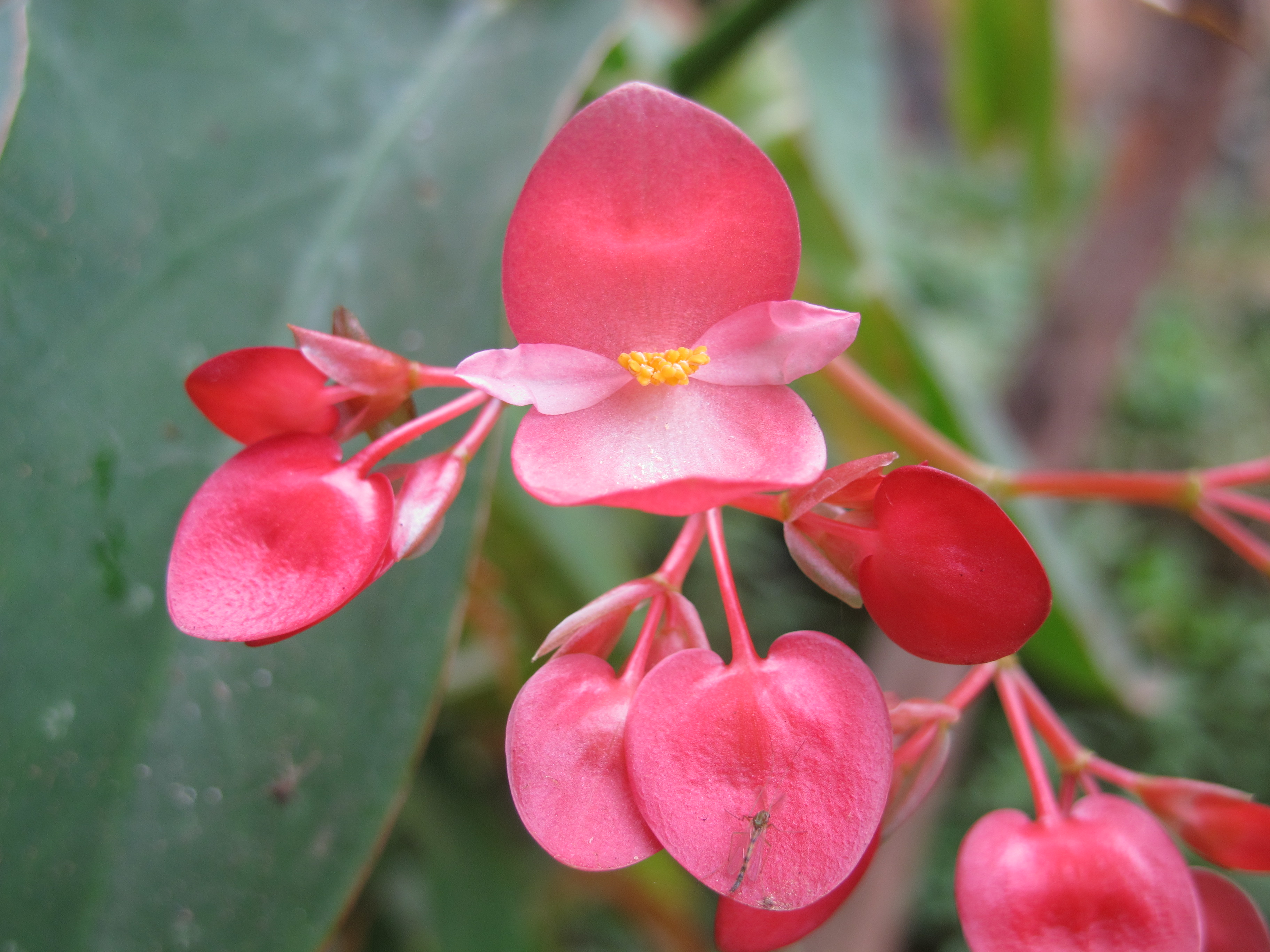 Begonia maculata at 18°54'32.70"S, 47°34'04.21"E